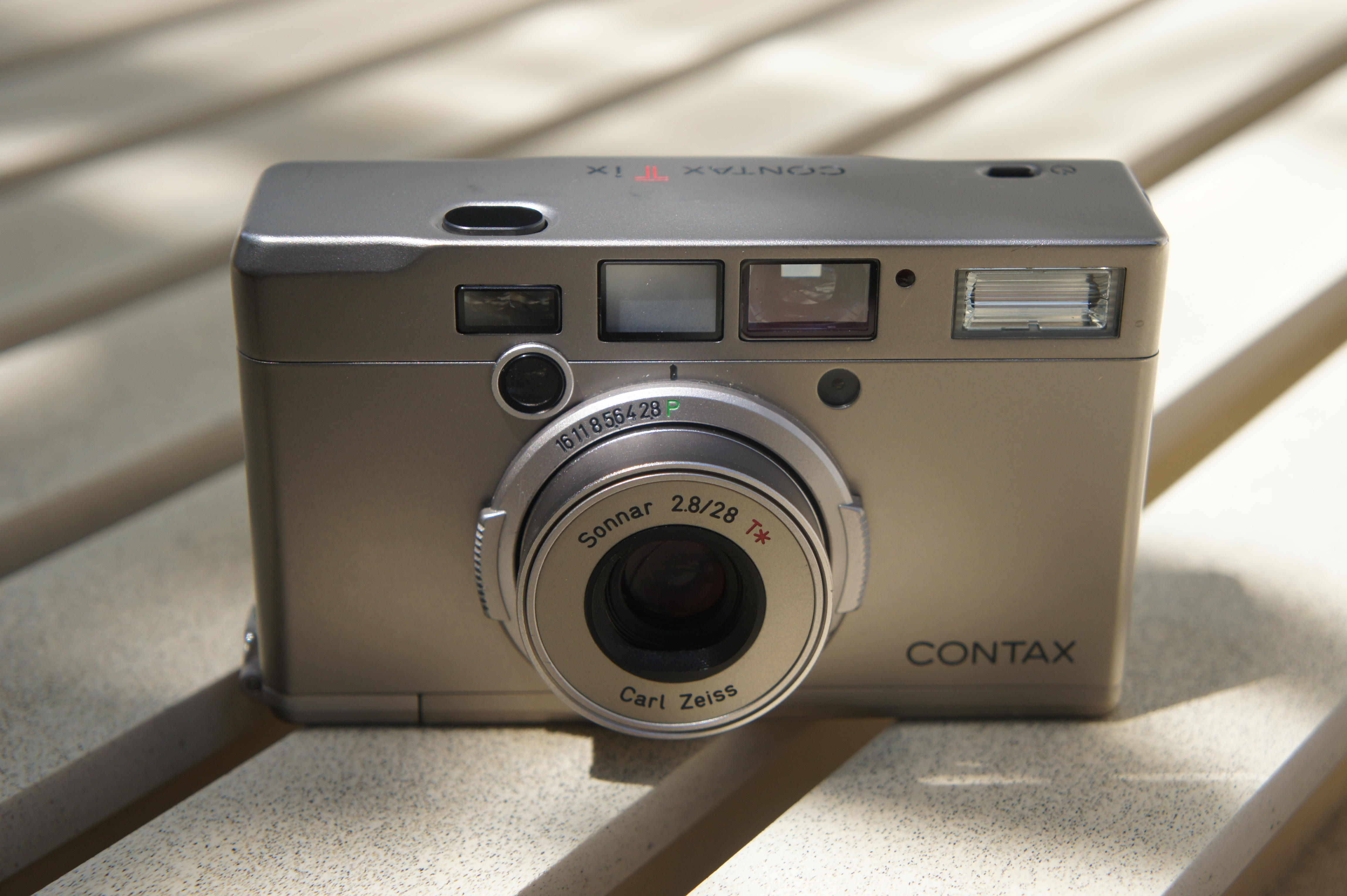 Kyocera Contax Tix